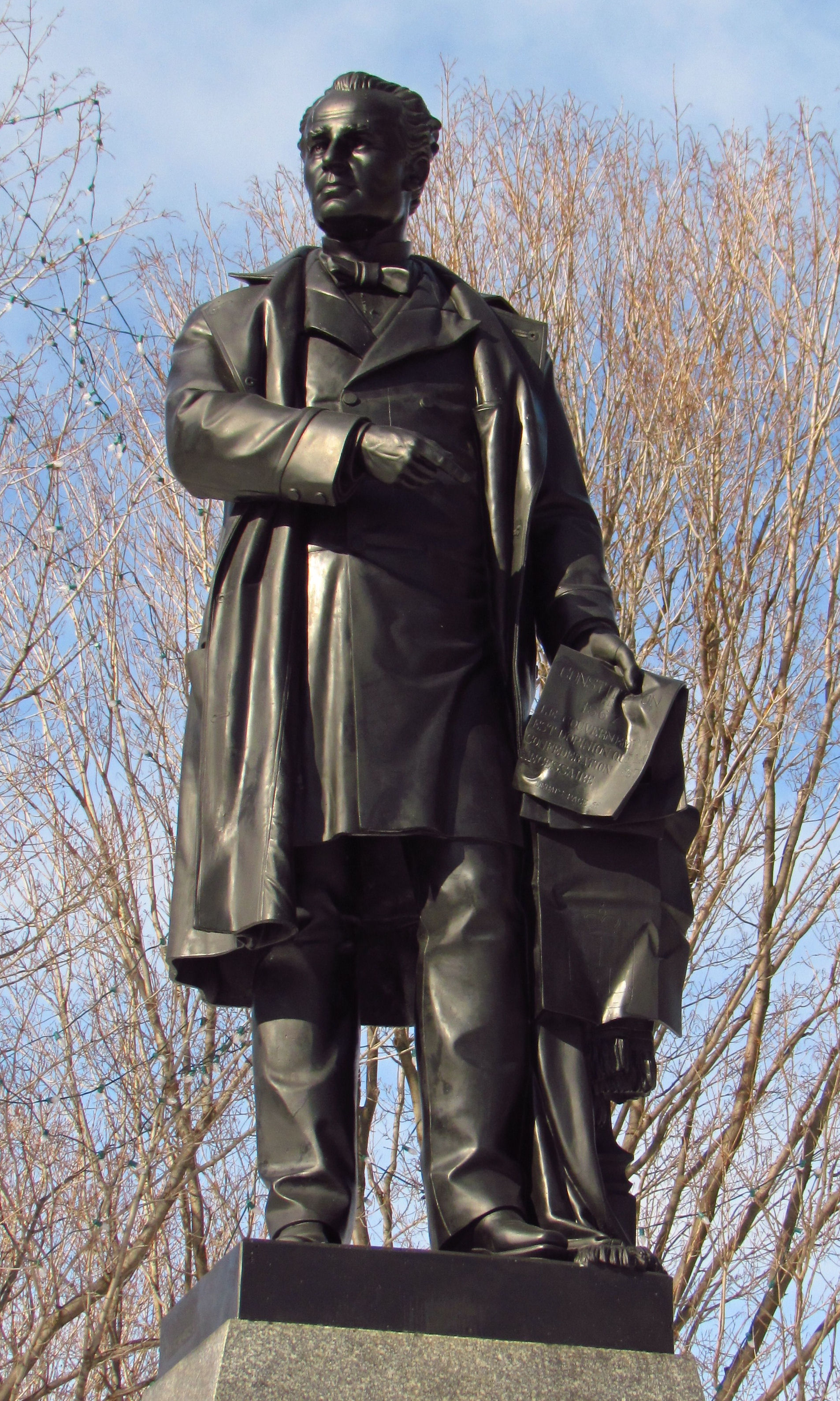 Sir George-Étienne Cartier, statue, Parliament Hill, Ottawa, Ontario, Canada